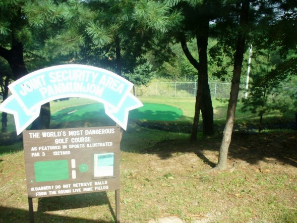 "The World's Most Dangerous Golf Course", at Camp Bonifas, just south of the Korean Demilitarized Zone.